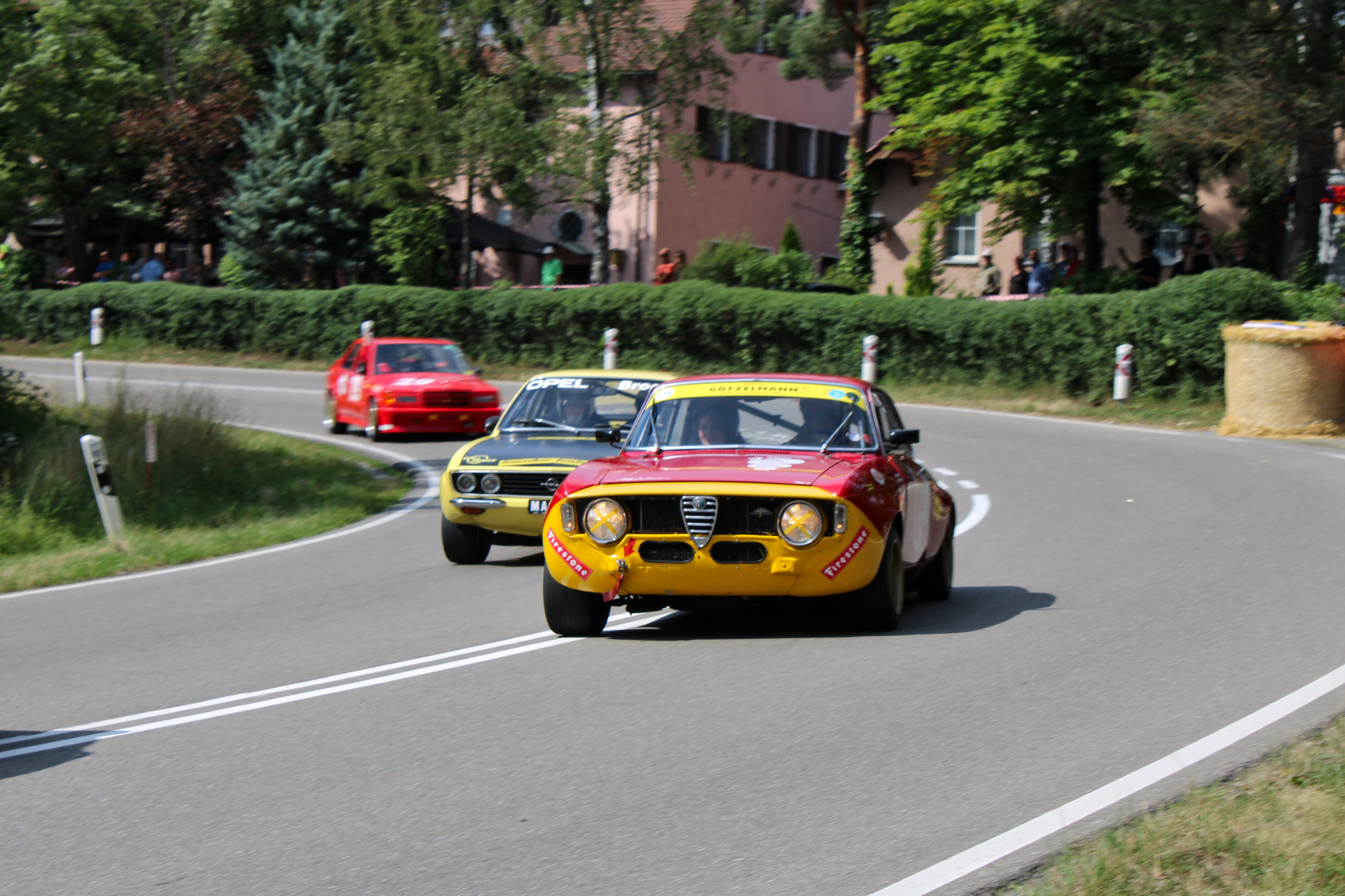 Alfa Romeo GTA-R (1964) at Solitude Revival 2019